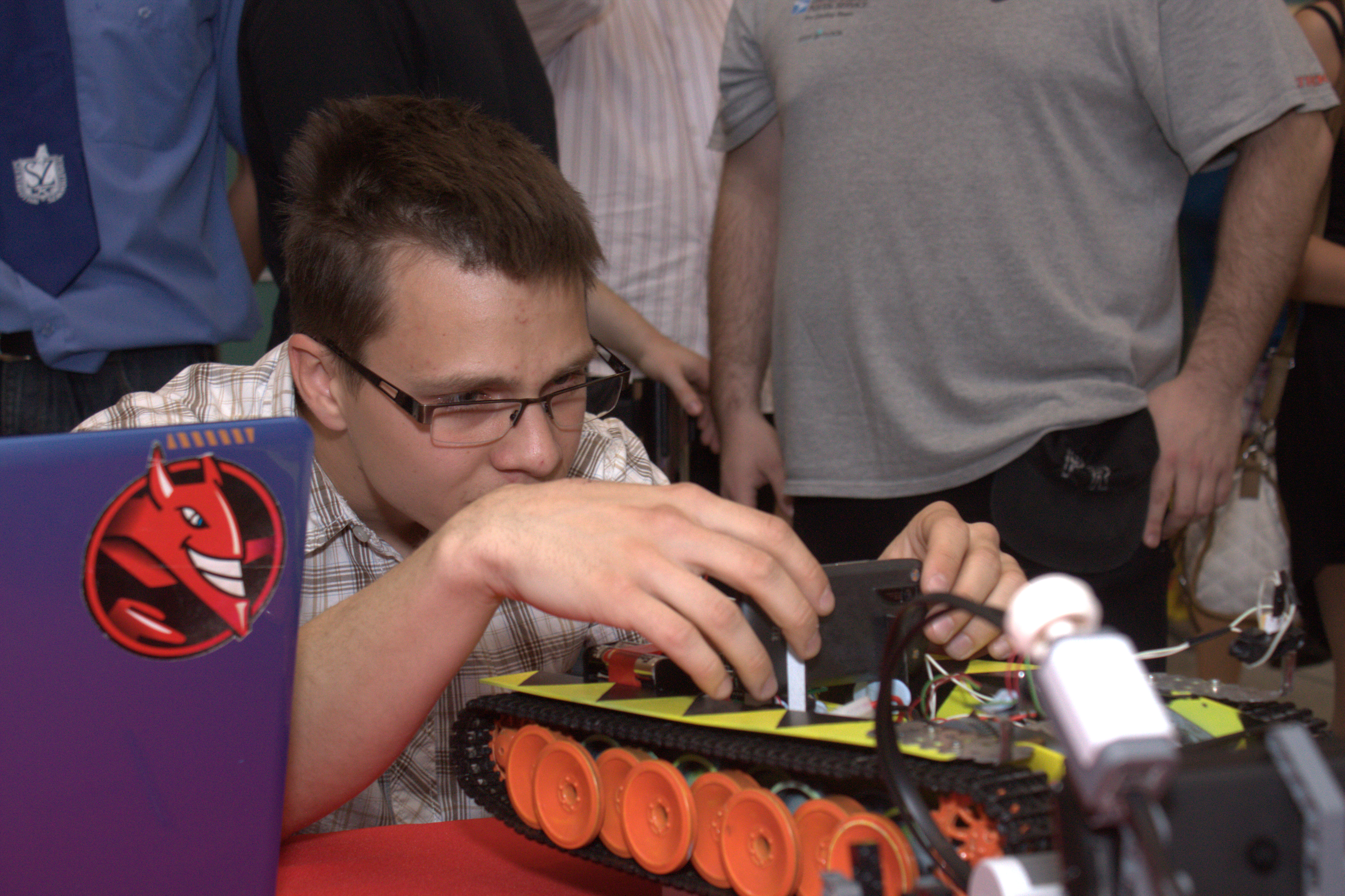 A student preparing his self-constructed robot during a robot race held by the Szentágothai János Szakkollégium